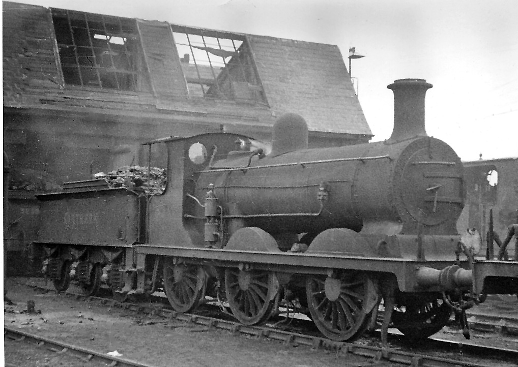 Surviving LB&SCR 0-6-0 at Three Bridges Locomotive Depot. No. 2436 was almost the last LB&SC L. Billinton class C2 0-6-0 not rebuilt to C2X; it was built 3/1893, withdrawn 1/50.